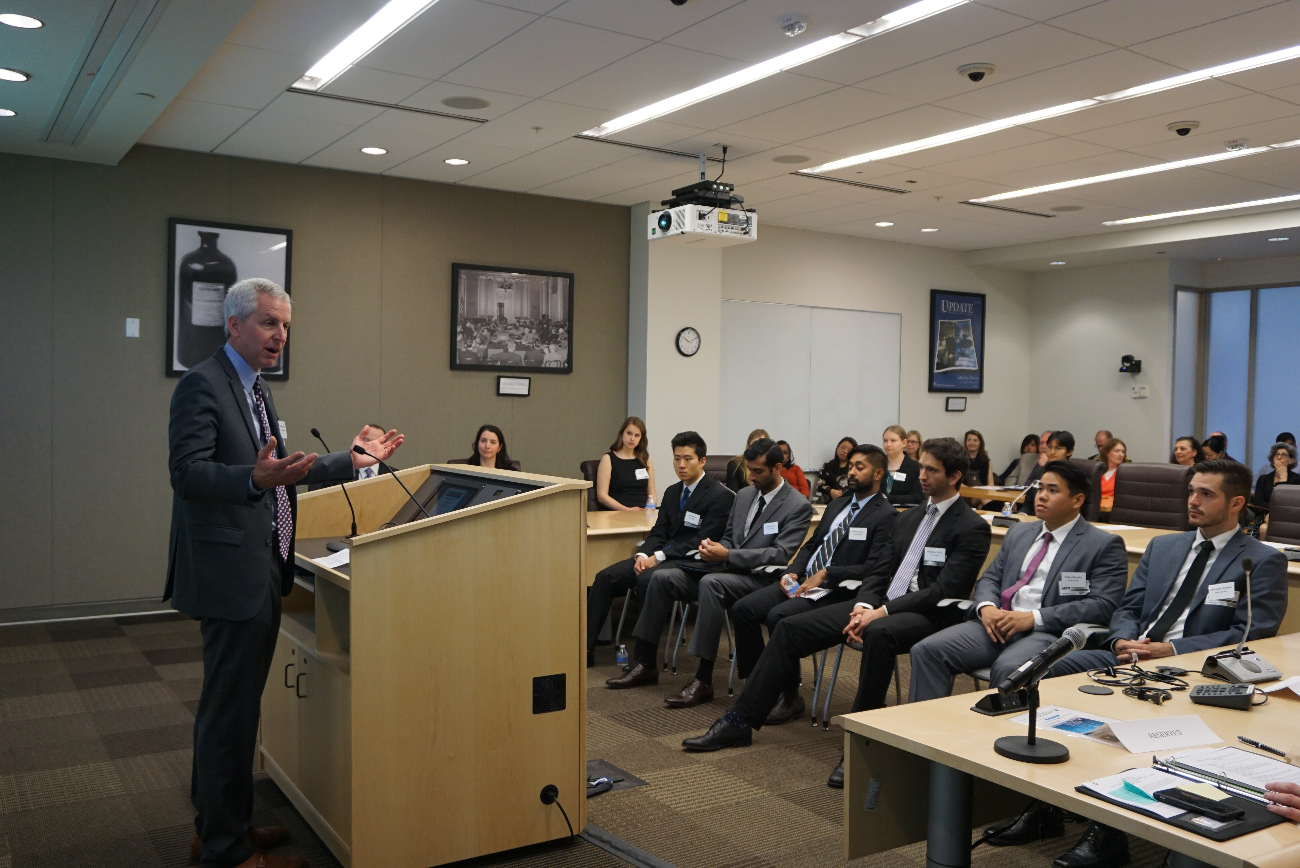 Since 2013, the University of Maryland CERSI, an FDA grant recipient, and the University of Rochester icon have held their annual America’s Got Regulatory Science Talent Competition to foster student interest in the pioneering field of regulatory science. The competition requires student teams to come up with innovative solutions to regulatory science challenges within eight scientific priority areas that FDA has identified in its Strategic Plan for Advancing Regulatory Science. This year’s panel of judges evaluated each of the presentations for the quality, novelty, potential significance and feasibility of the students’ proposed solutions. Read the FDA Voice blog article "Americas Got Talent - Regulatory Science Style" to learn more. This photo is free of all copyright restrictions and available for use and redistribution without permission. Credit to the U.S. Food and Drug Administration is appreciated but not required. FDA photo by York Tomita